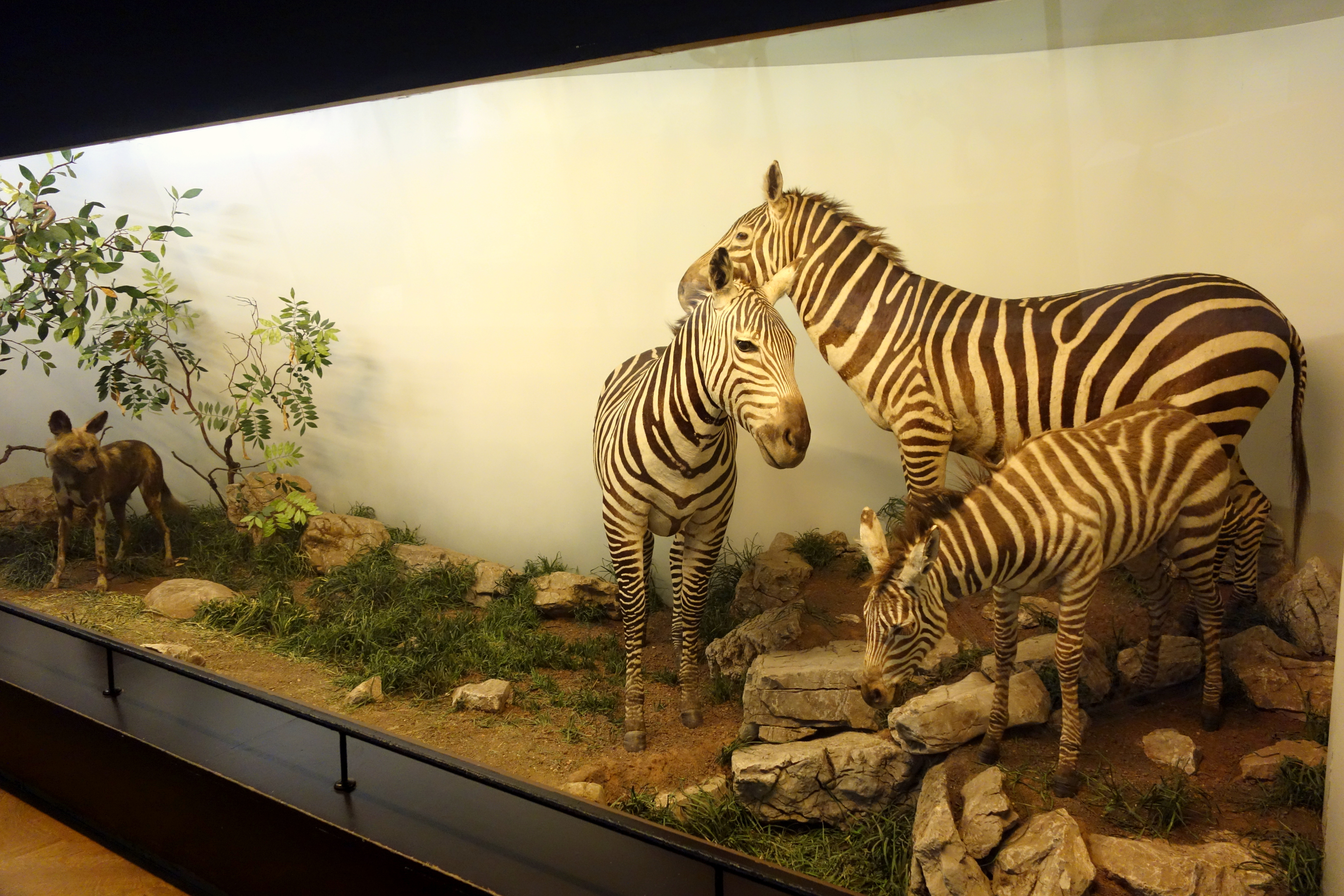 Exhibit in the Royal Museum for Central Africa, Tervuren, Belgium.